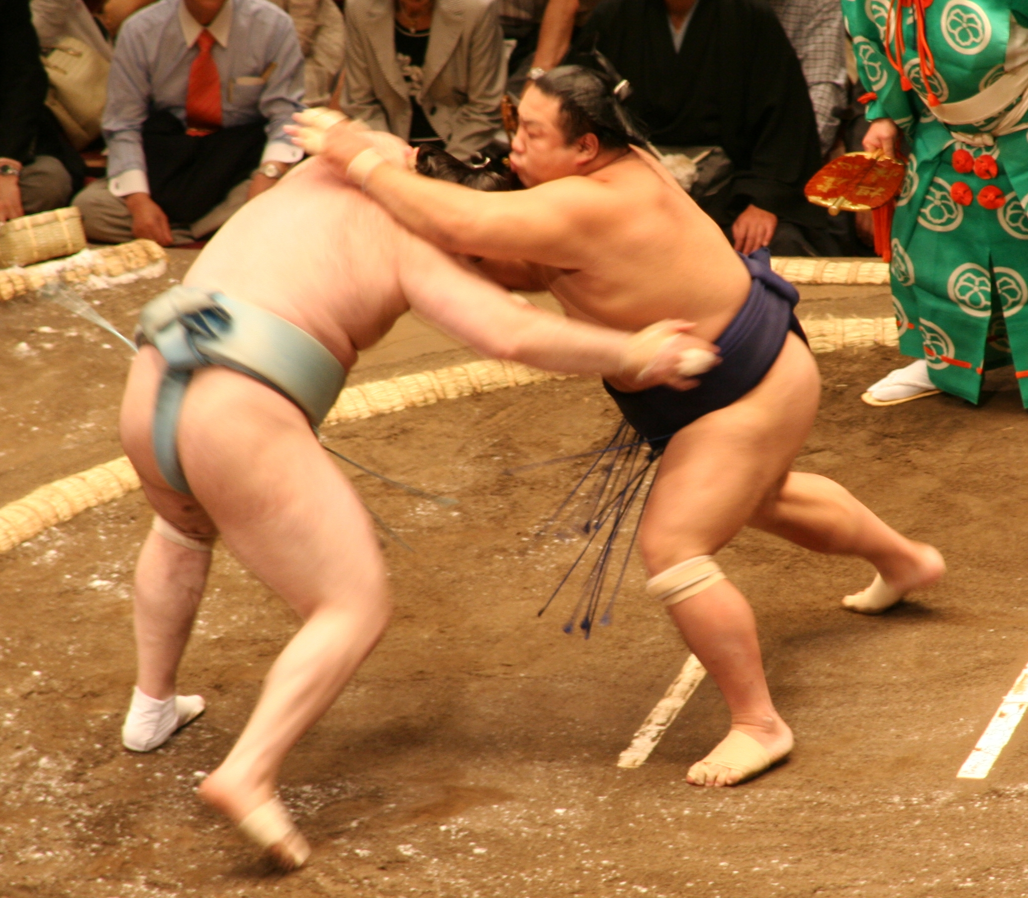 Sumo Wrestler Chiyotaikai Ryuji vs. Kokkai on the first day the of May Tournament 2007 in Tokyo.